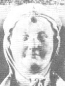 Effigy on the tomb of Matilda of England